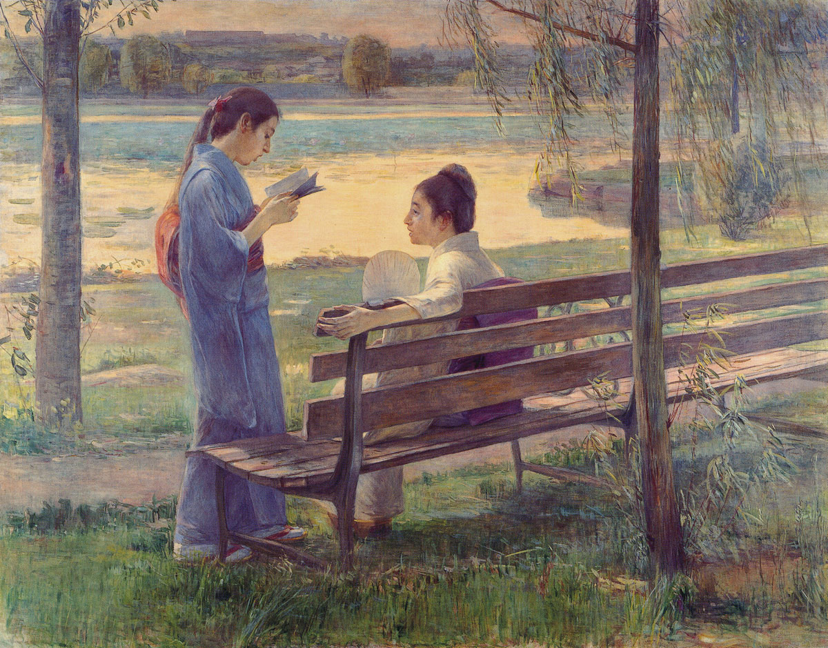 Summer Evening Beside the Lake, by Fujishima Takeji, University Art Museum, Tokyo University of the Arts, Japan